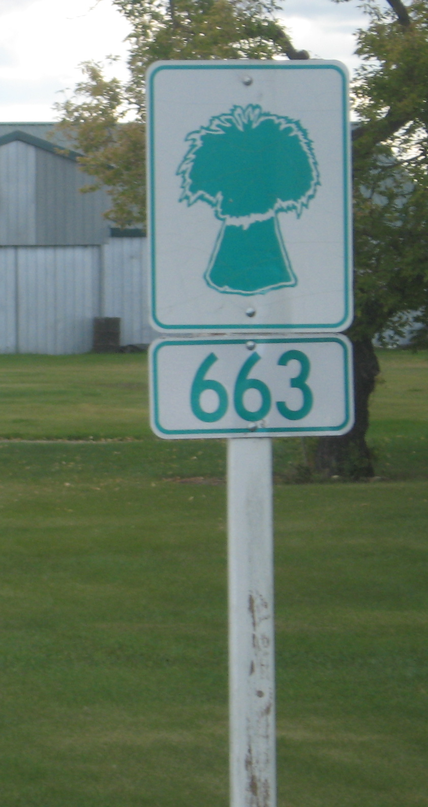 A Route 663 marker near the end of old Highway 11, outside Saskatoon, Saskatchewan. Shot September 2008